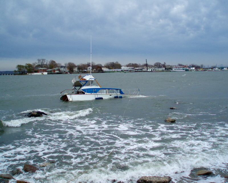 Rough surf on a winter day - looking at City Island from Orchard Beach